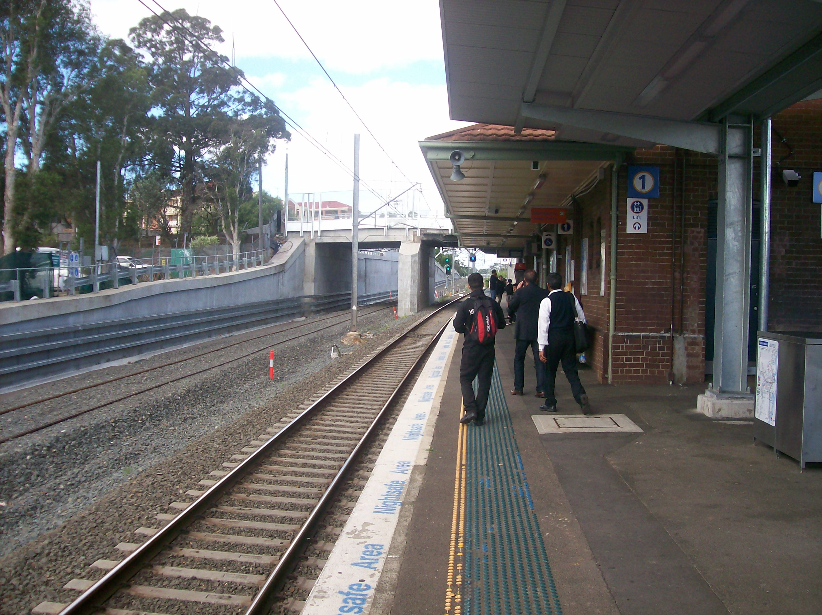 Riverwood station p1